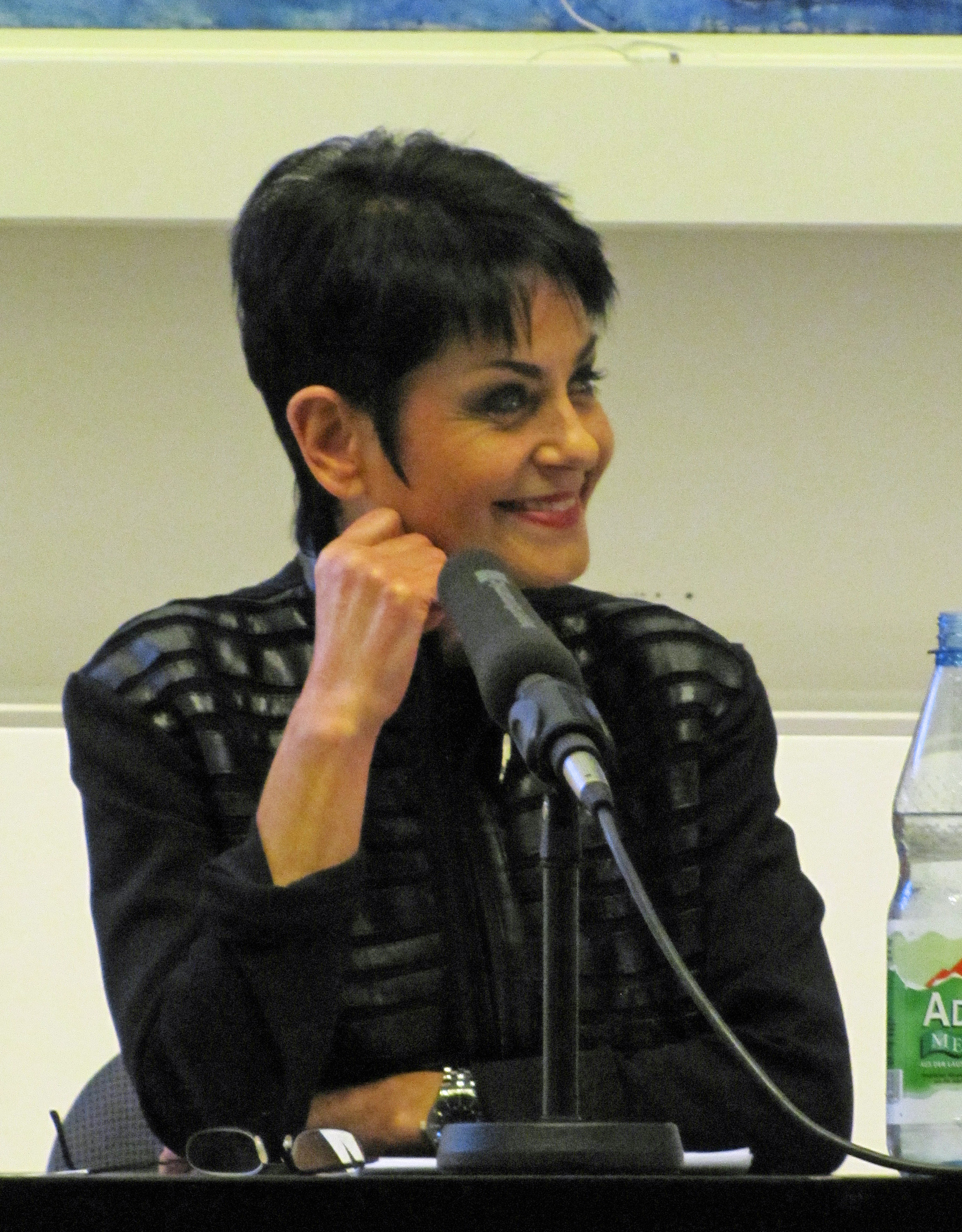 Sibylle Nicolai, German actress and news presenter, 2010 in Frankfurt am Main, Germany.